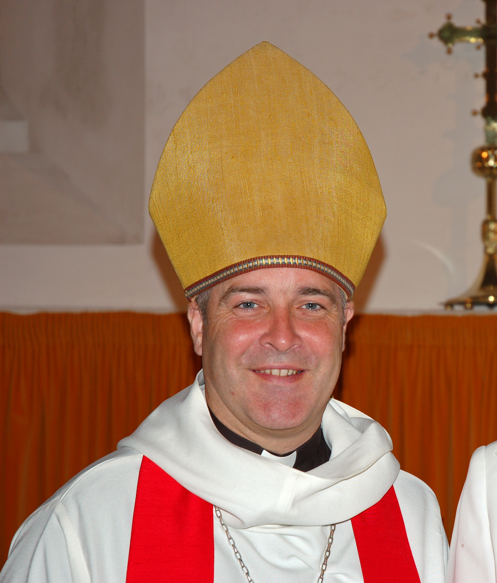 Bishop Stephen Cottrell